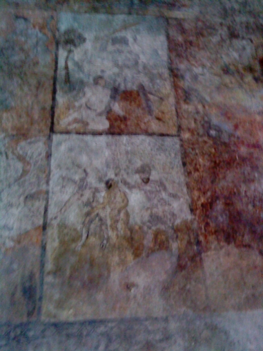 paintings on Xoxoteco chapel walls